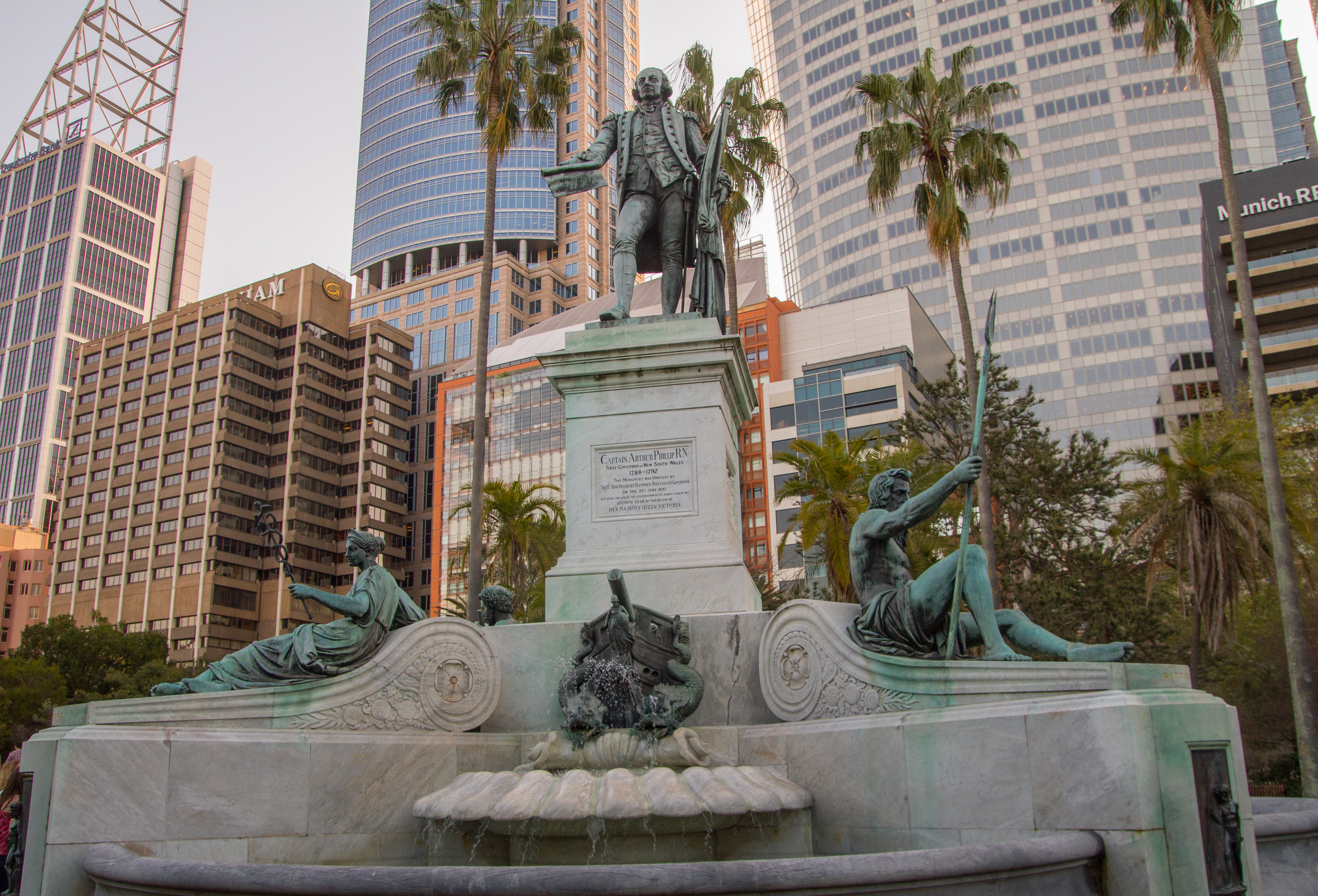 Statue of Arthur Phillip in the Botanic Gardens, Sydney, Australia